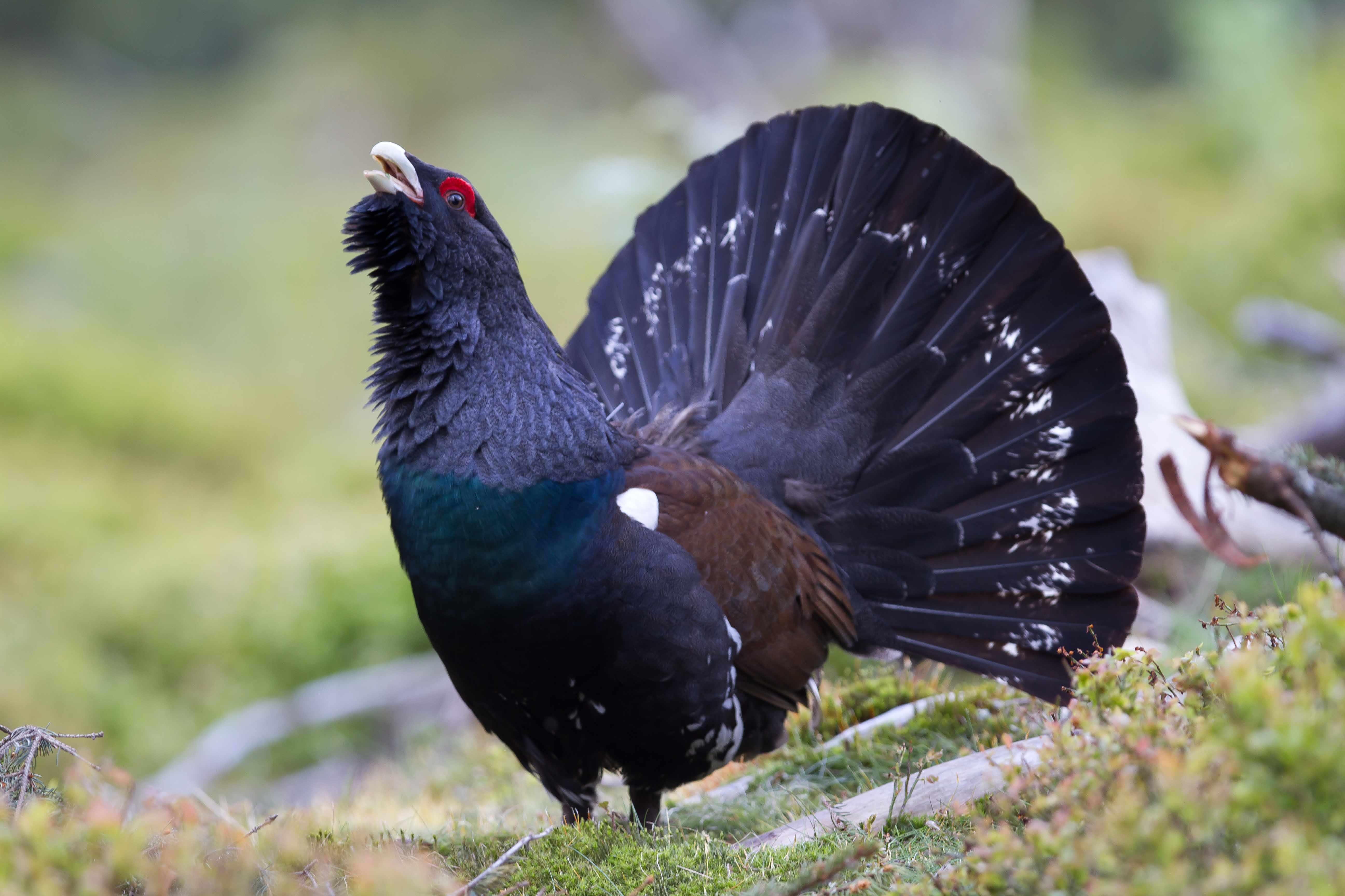 Capercaillie Tetrao urogallus in the Black Forest, Germany